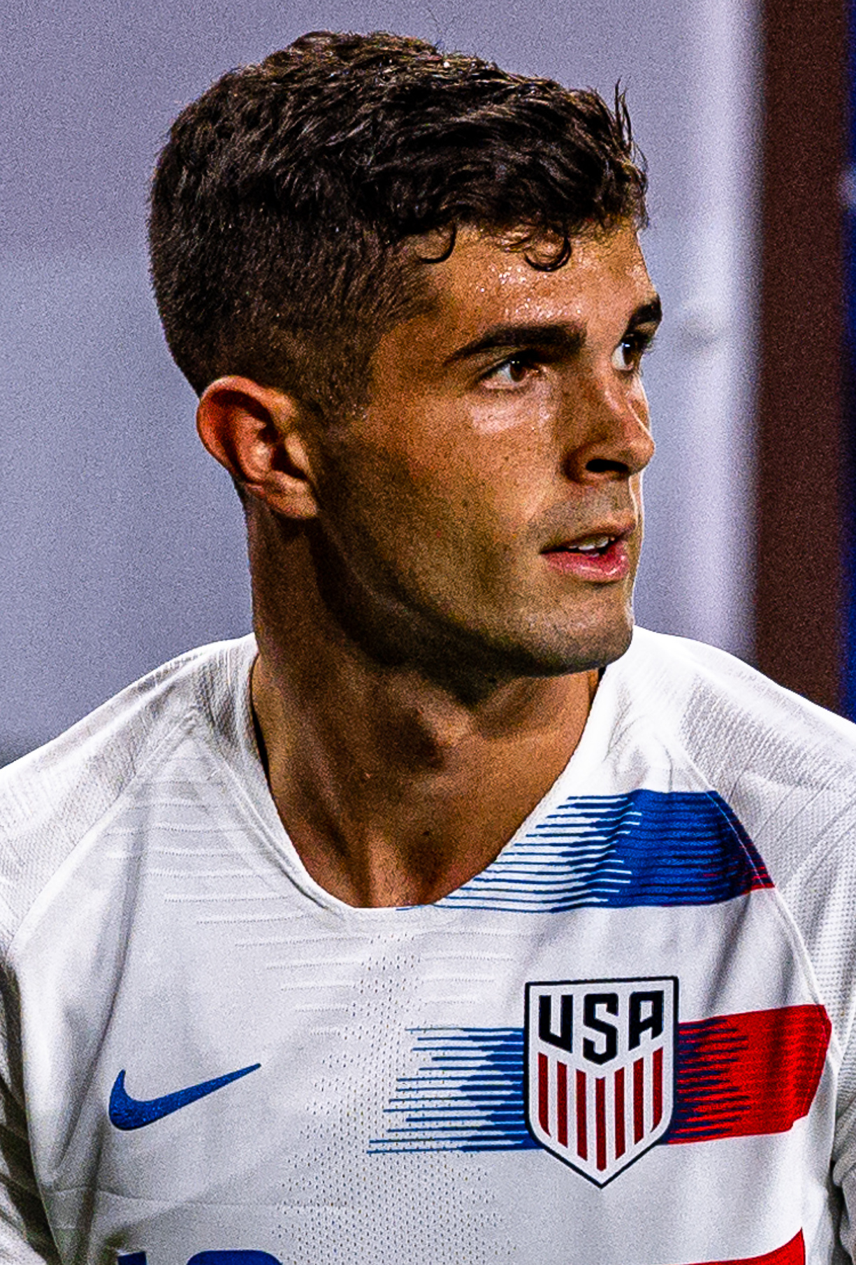 USMNT vs. Trinidad and Tobago